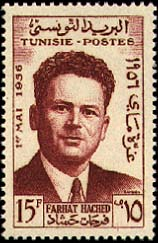 Tunisan stamp_about_Farhat_Hached